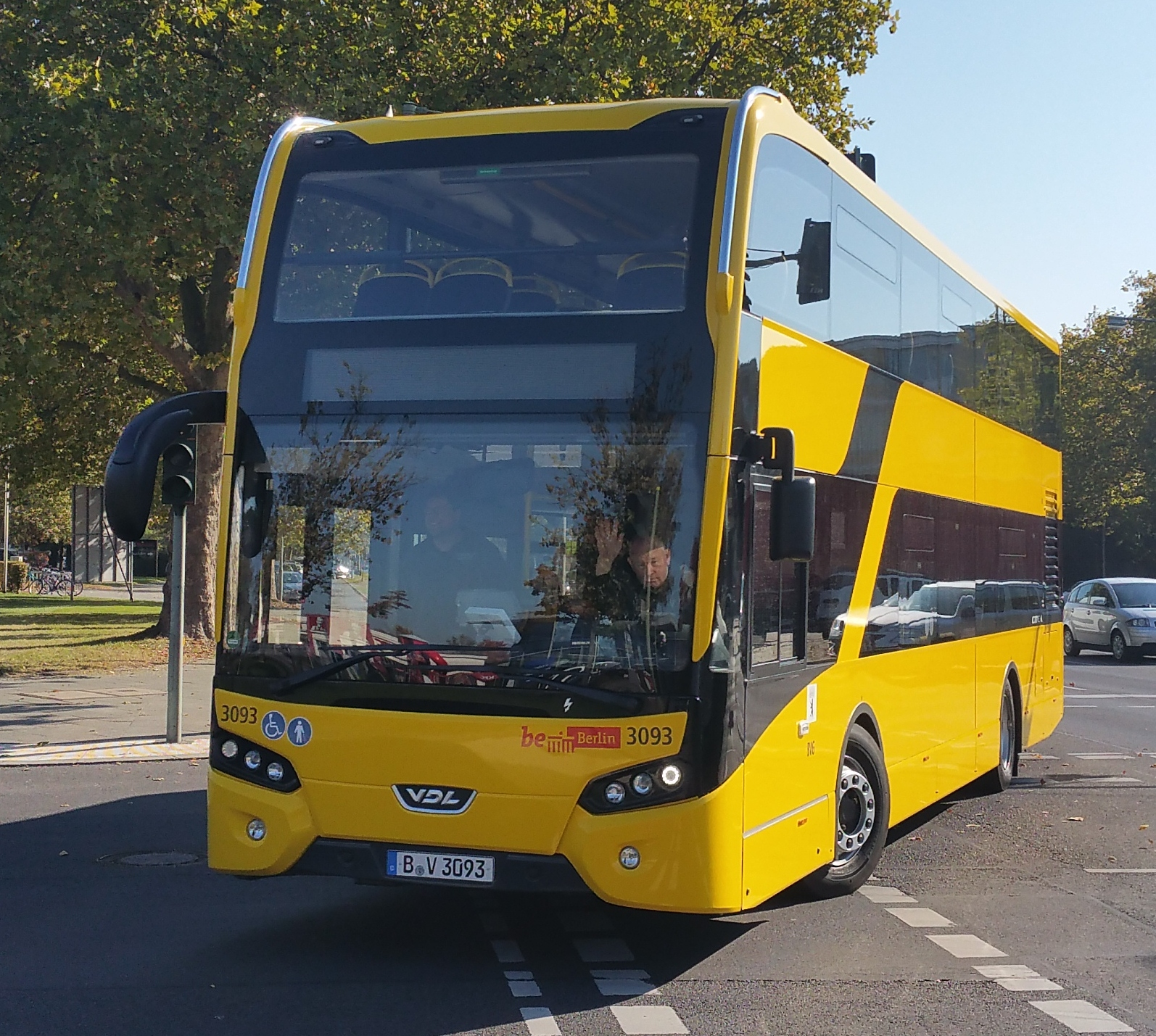 New Prototyp Bus of VDL for BVG